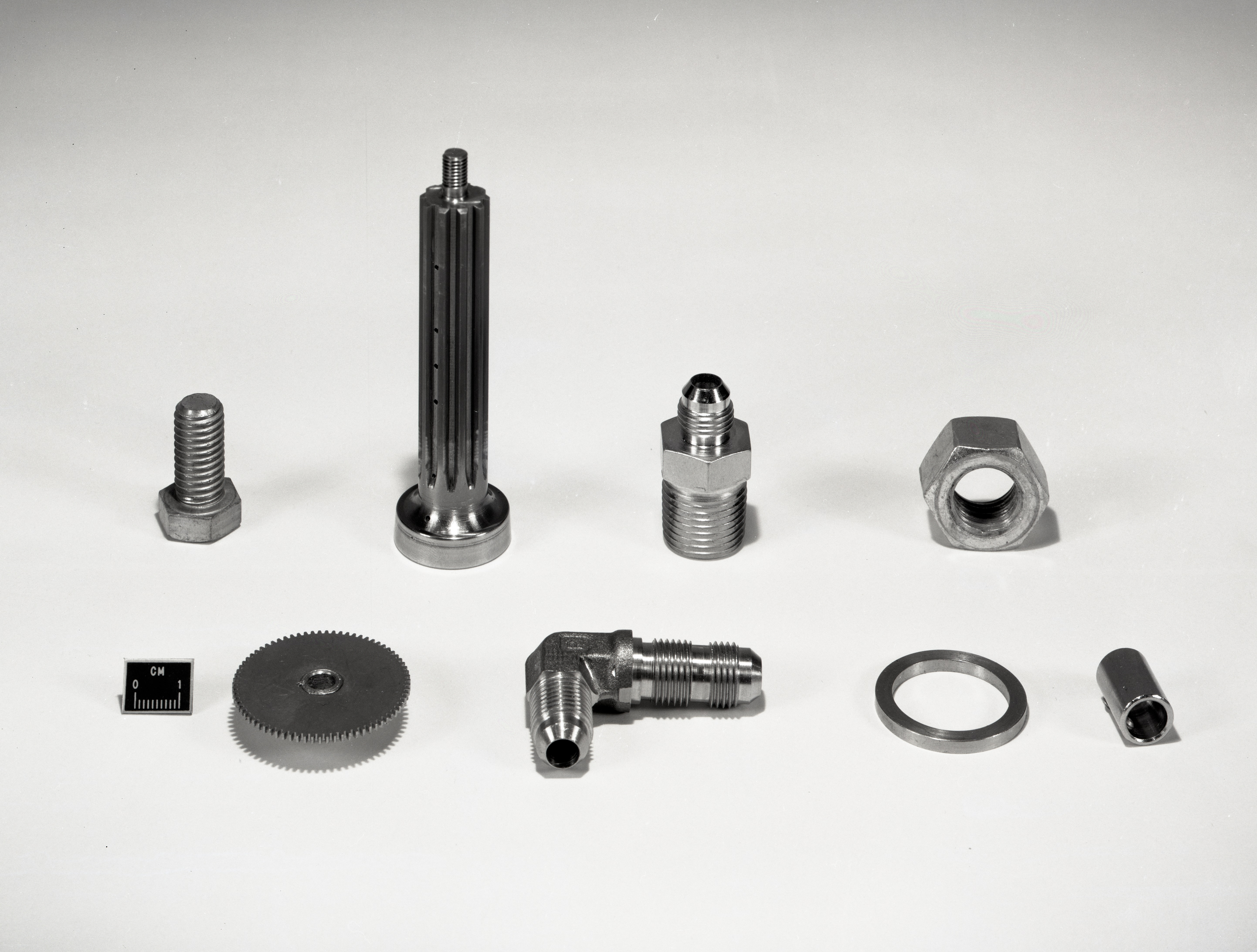 Scope and content: The original finding aid described this as: Capture Date: 1/29/1979 Photographer: MARTIN BROWN Keywords: Larsen Scan